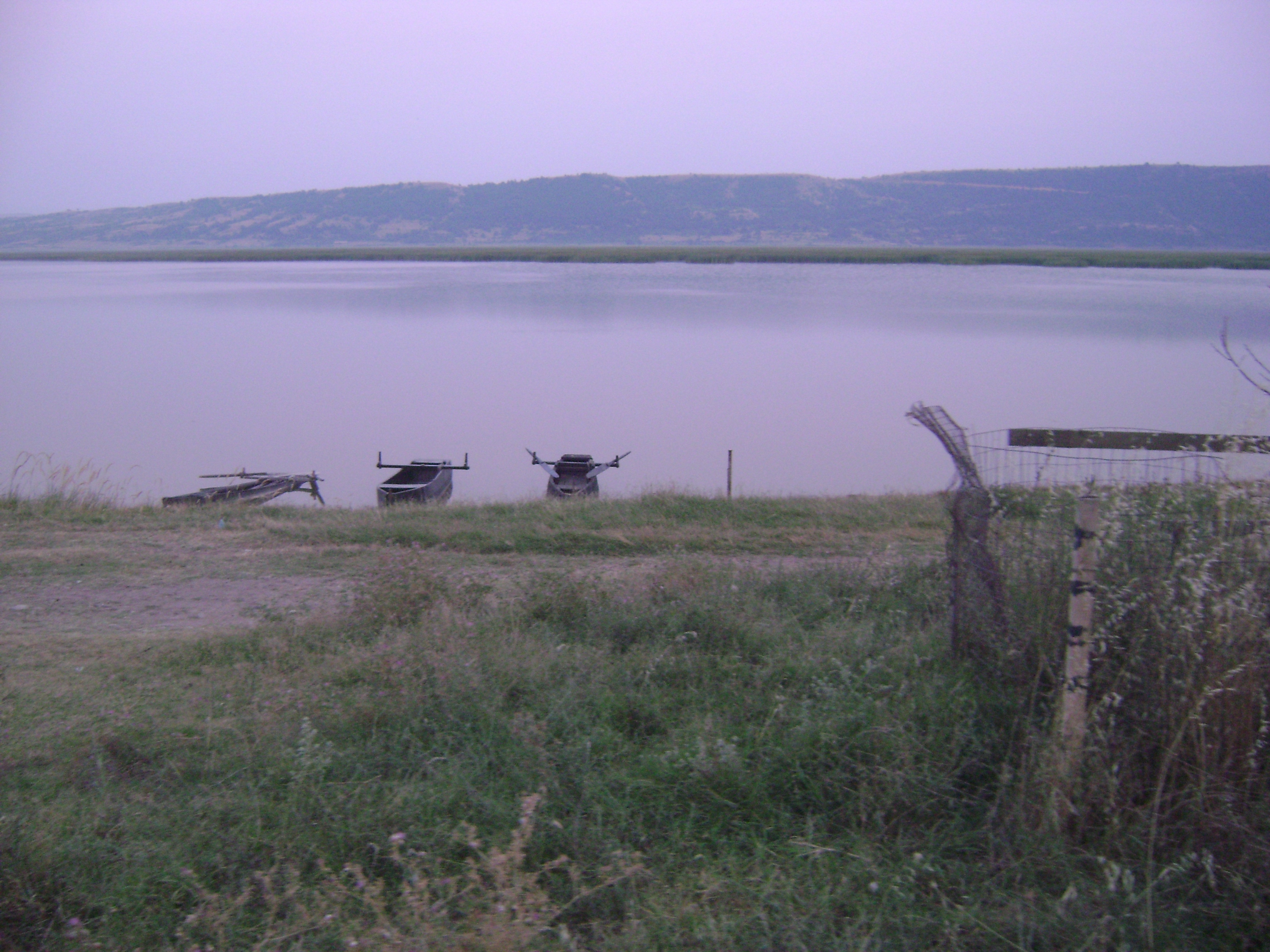 This is a photography of Natura 2000 protected area with ID GR1340005